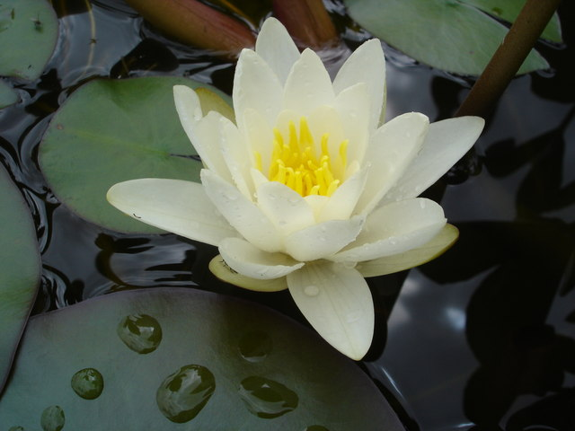 White Water-lily Nymphaea alba. A little insect hides under the petal of the water-lily.